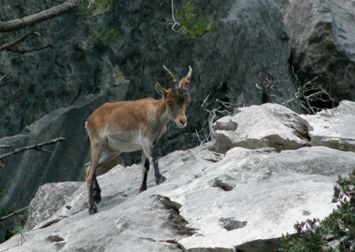 Spanish Ibex (male, juvenile)